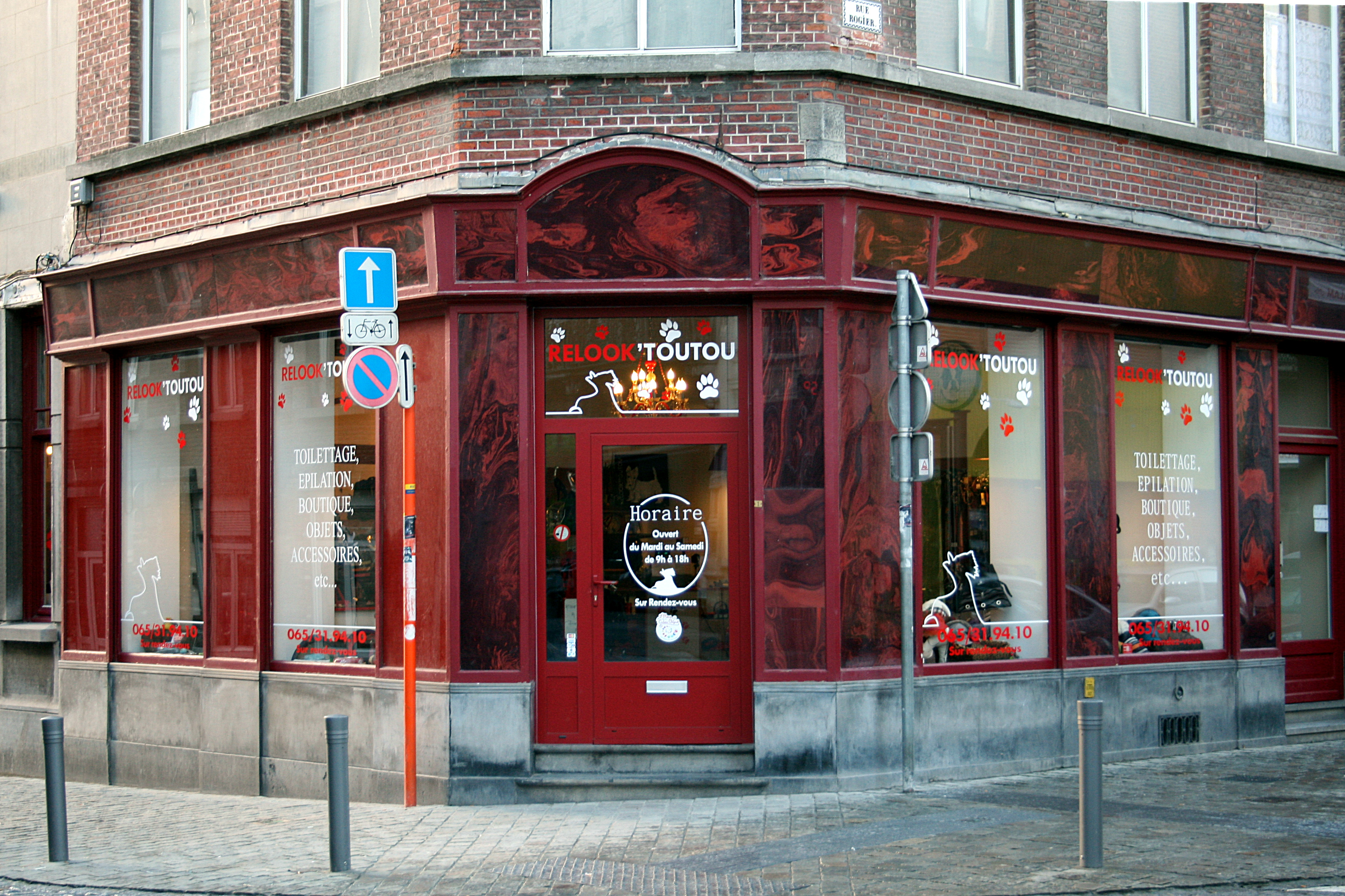 Mons (Belgium), rue Rogier, 1 - Typical wooden shop windowx of a dog grooming shop.